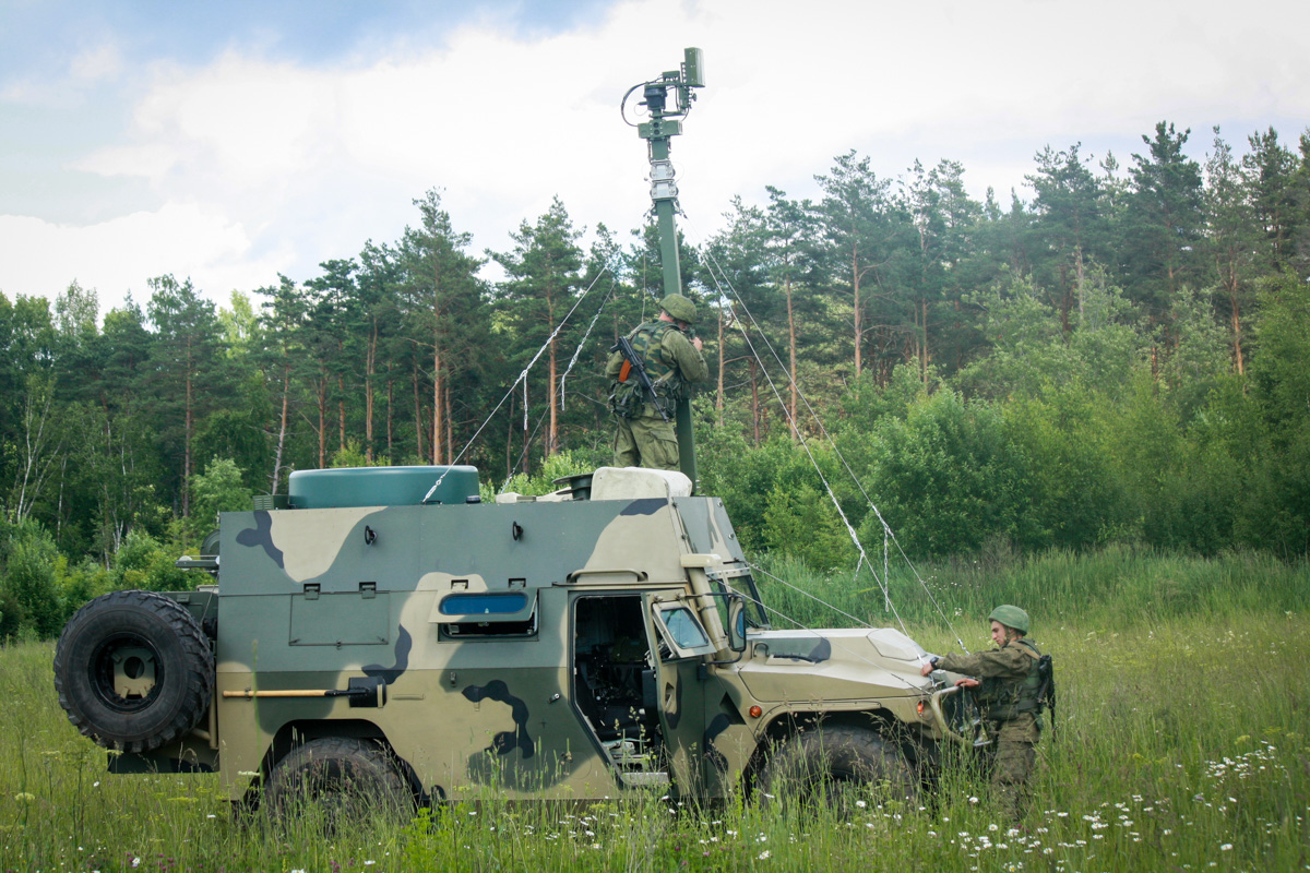 P-230T command vehicle.